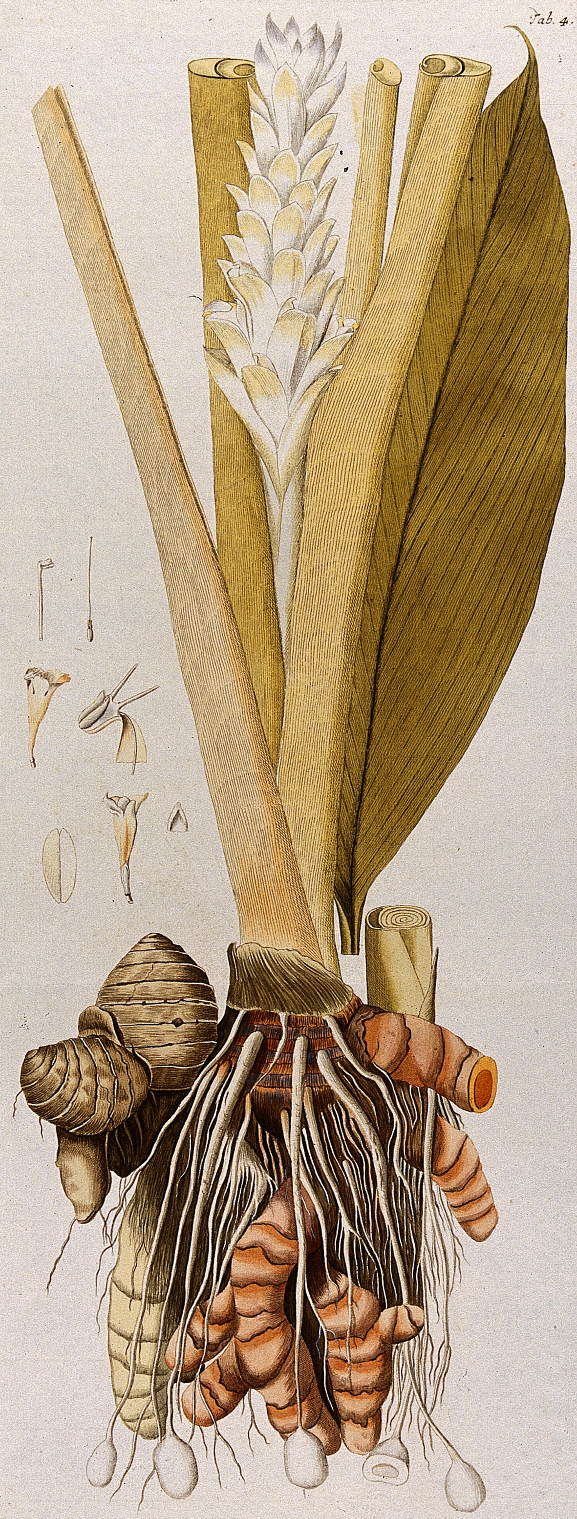 Turmeric (Curcuma longa L.): rhizome with flowering stem and separate leaf and floral segments. Coloured engraving after F. von Scheidl, 1776. Iconographic Collections Keywords: Nikolaus Joseph Jacquin; Materia Medica; Franz Anton von Scheidl